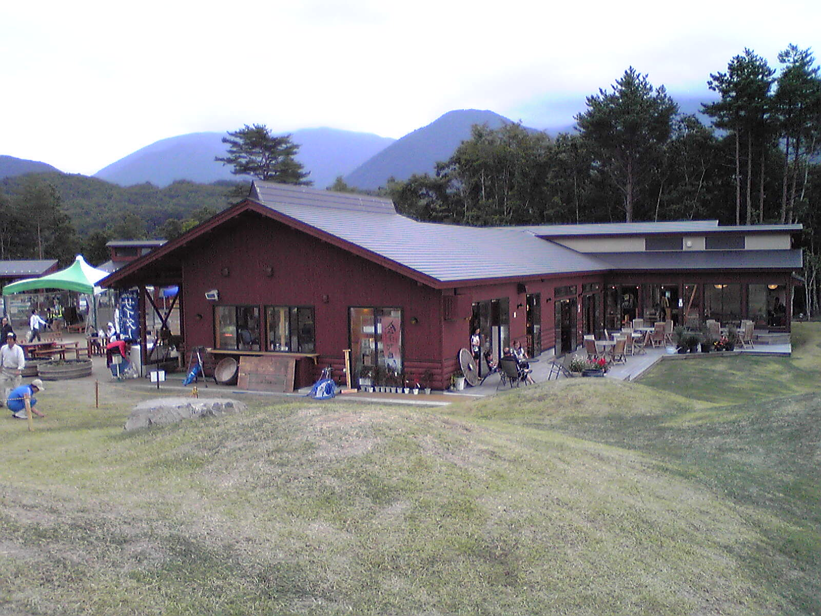 Shimogo, Roadside Station, Fukushima, Japan. This photograph was taken near the building.